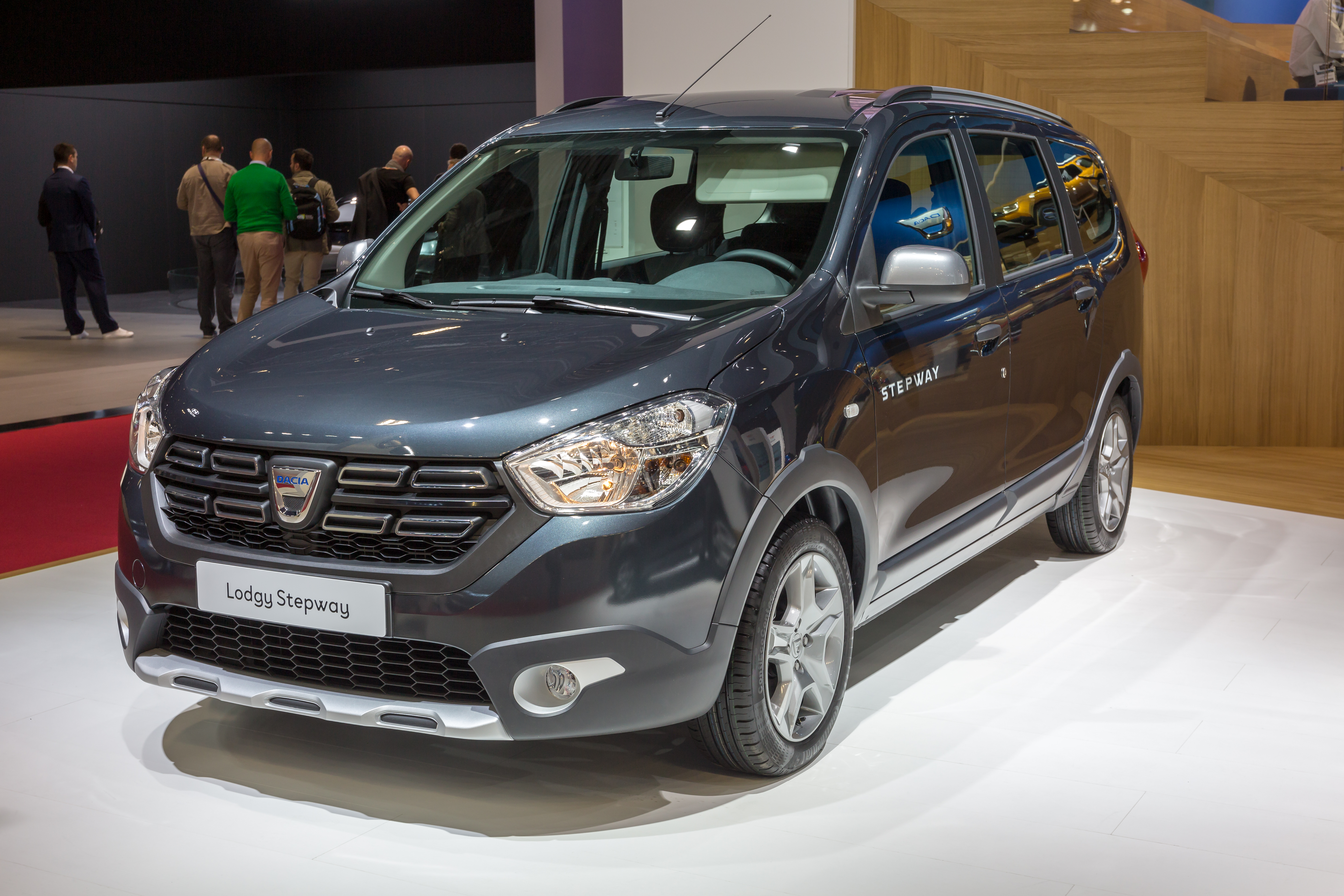 Dacia Lodgy Stepway at Mondial Paris Motor Show 2018